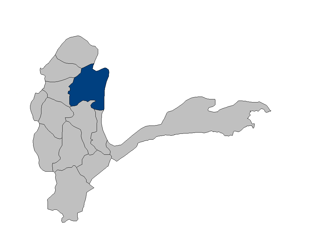 Location map for the Shignan District of Badakhshan Province, Afghanistan. Original map source: Image:Badakhshan districts.png